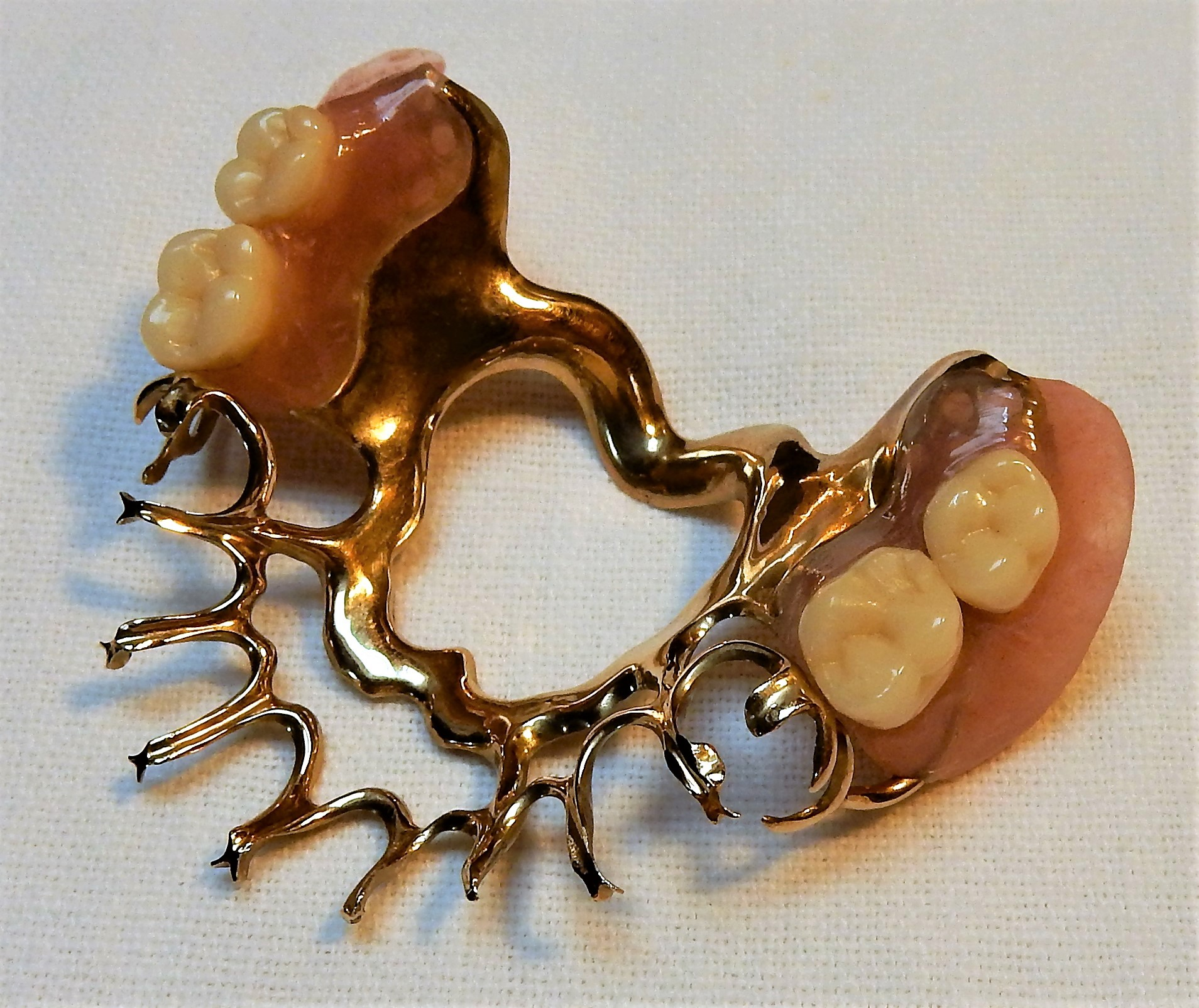 removable denture in gold and porcelain built in 1960 in Italy